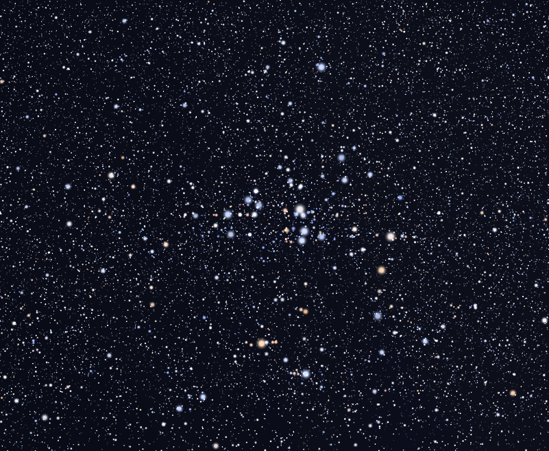 NGC 6087 (taken from Stellarium)